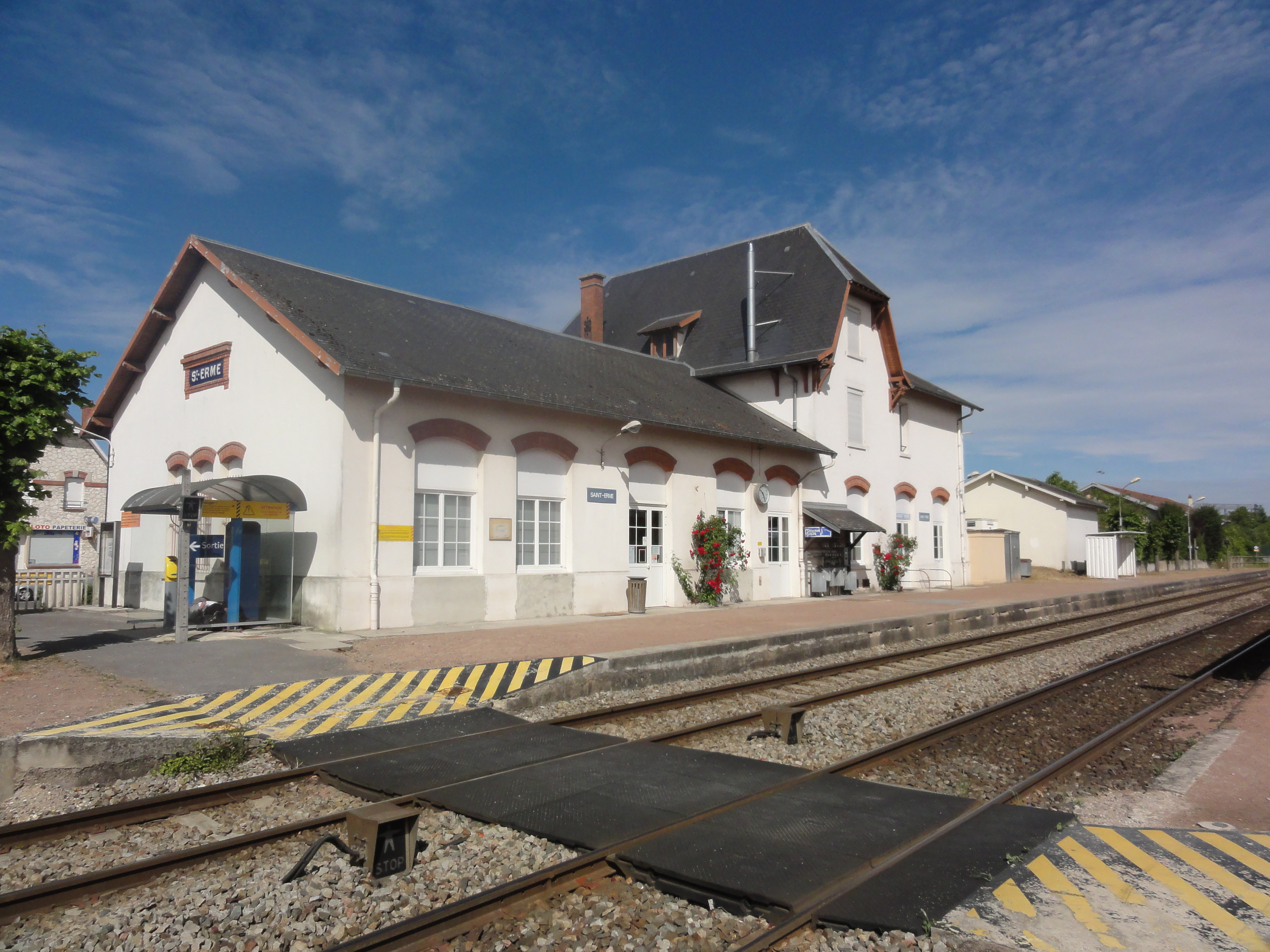 Saint-Erme-Outre-et-Ramecourt (Aisne) gare de Saint-Erme coté quais